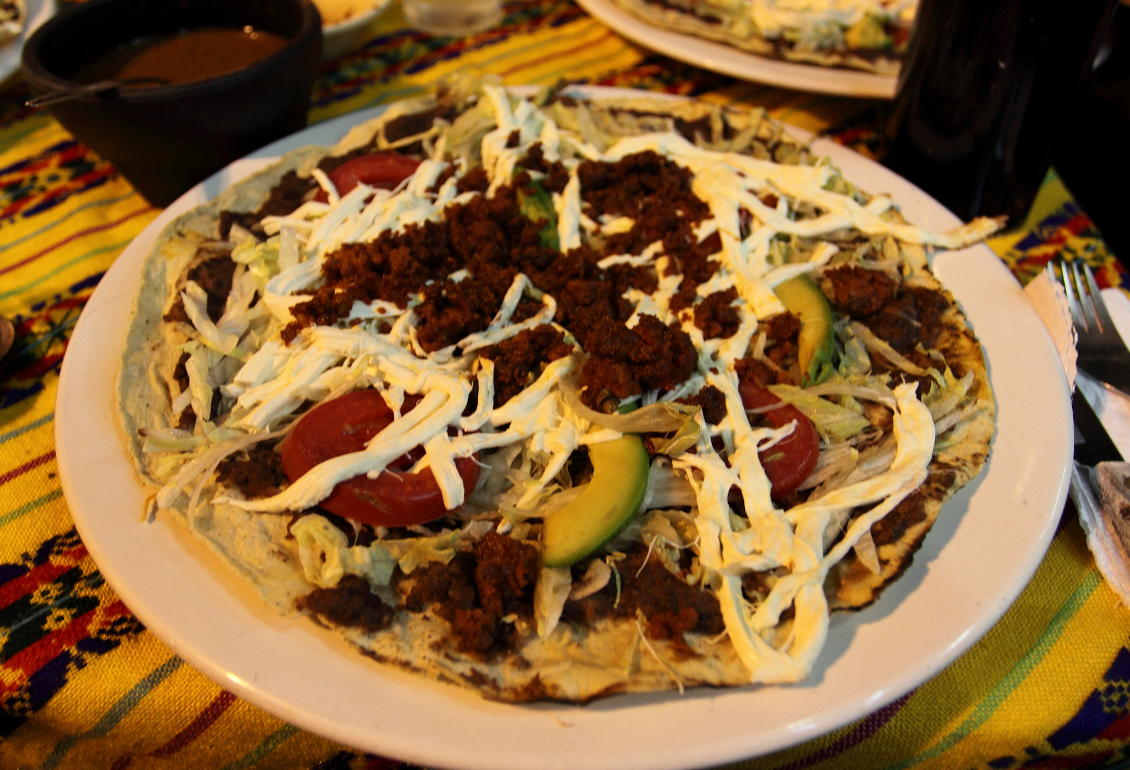 Tlayuda topped with Oaxaca Cheese Y chorizo in Oaxaca, Oaxaca, Mexico.